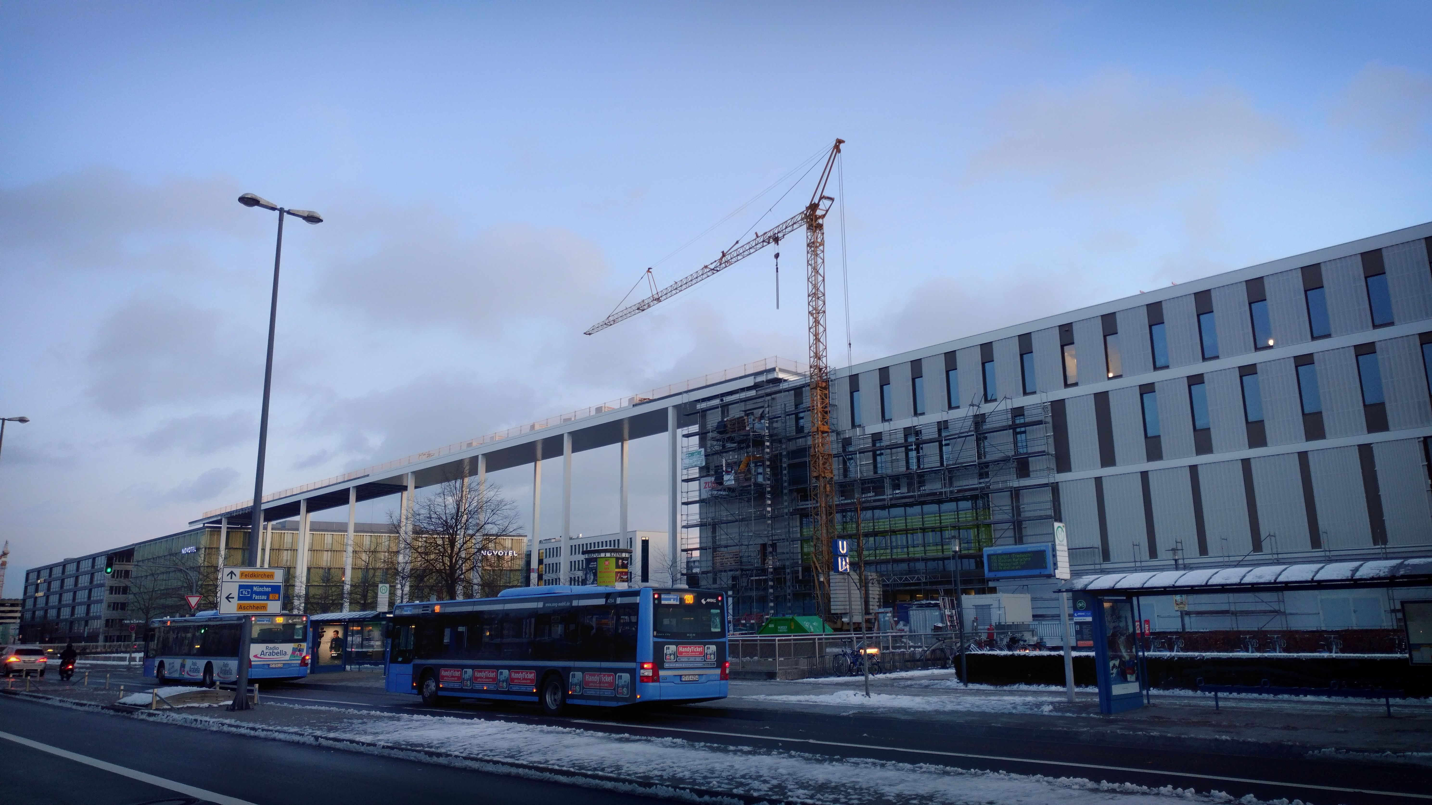 View with the new Portikus and the new part of the Riem Arcaden under construction